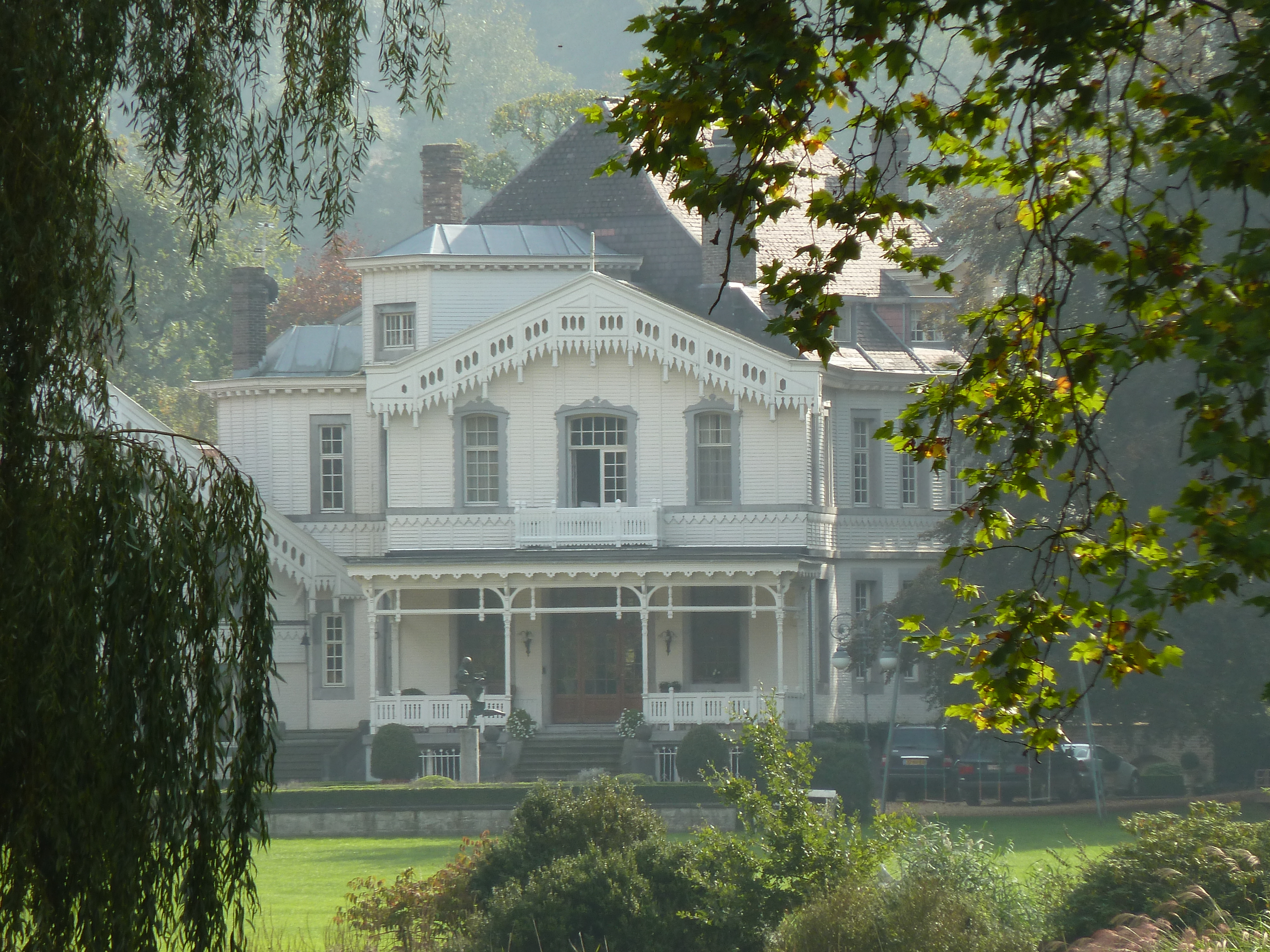 Castle Altembrouck, 's-Gravenvoeren, Belgium